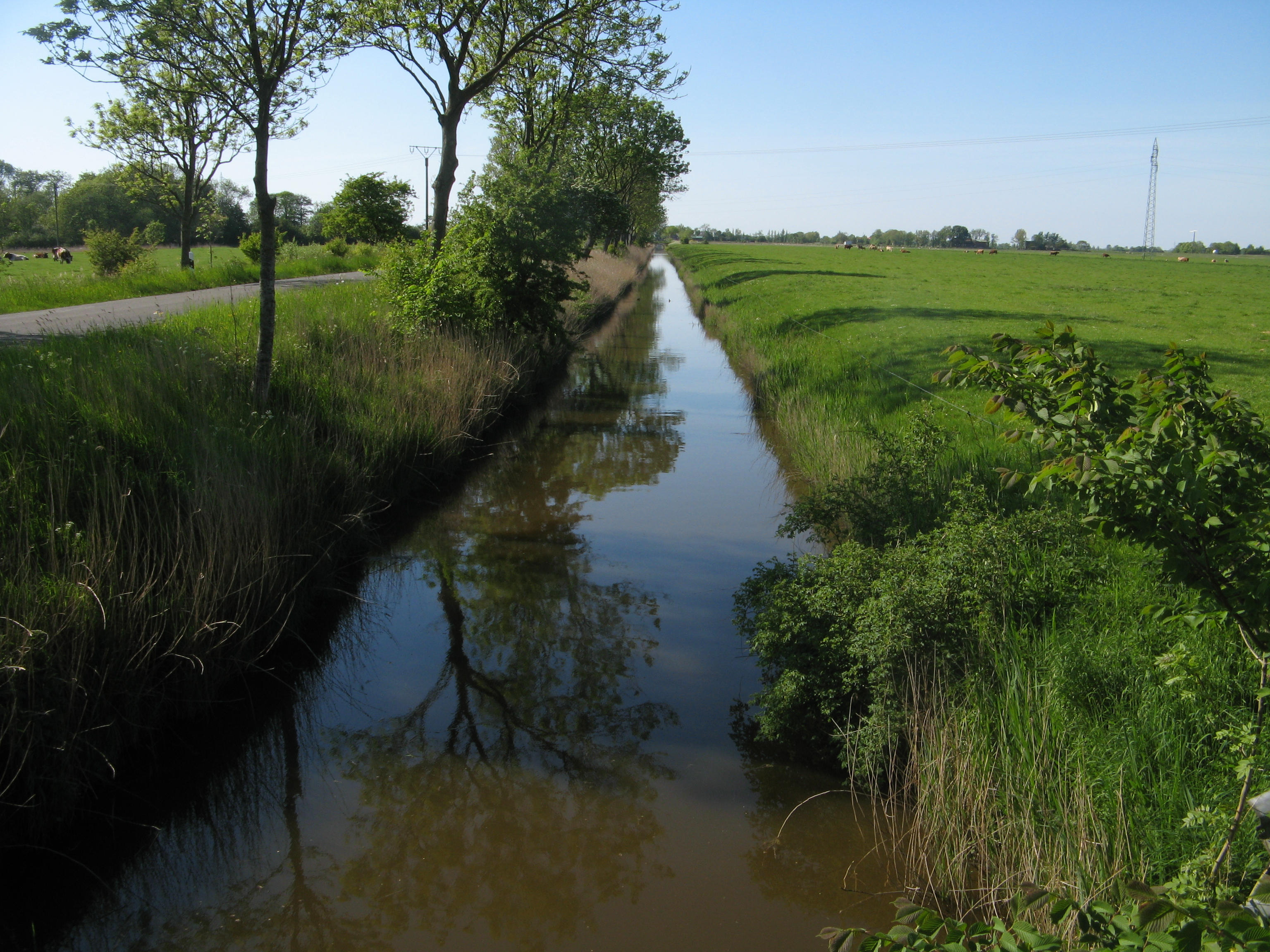 Norderbootfahrt canal in Kotzenbüll, North Frisia, Germany